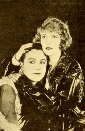 Still from Episode 8, "Cave of Dread," of the American film serial The Lightning Raider (1919) with Pearl White and Henry G. Sell, on page 1374 of the March 8, 1919 Moving Picture World.